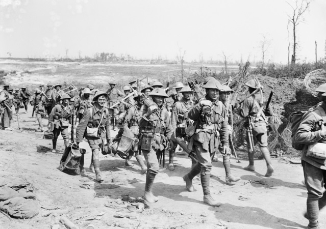 Australian machine gunners from either the 5th, 6th or 7th MG Coys, 2nd Division, around Pozieres, mid-1916.